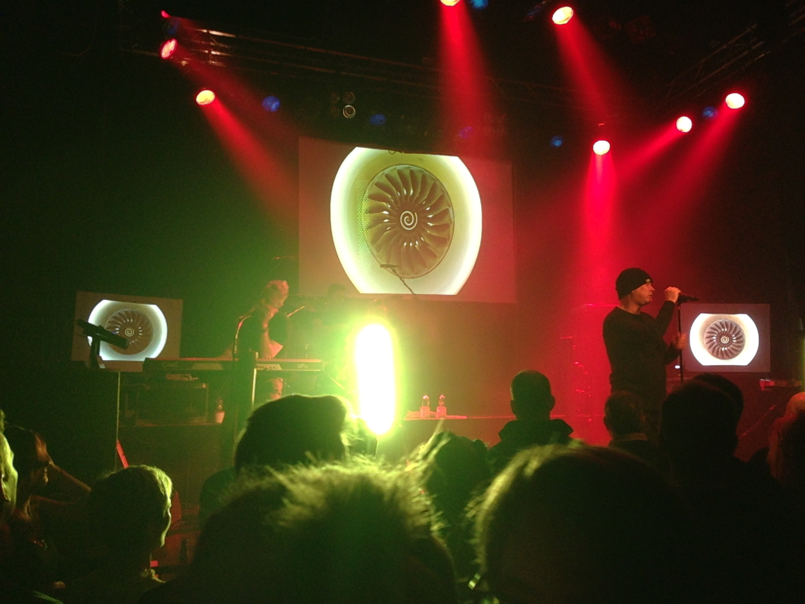 Mesh live at Forbraendingen, Copenhagen, 2017